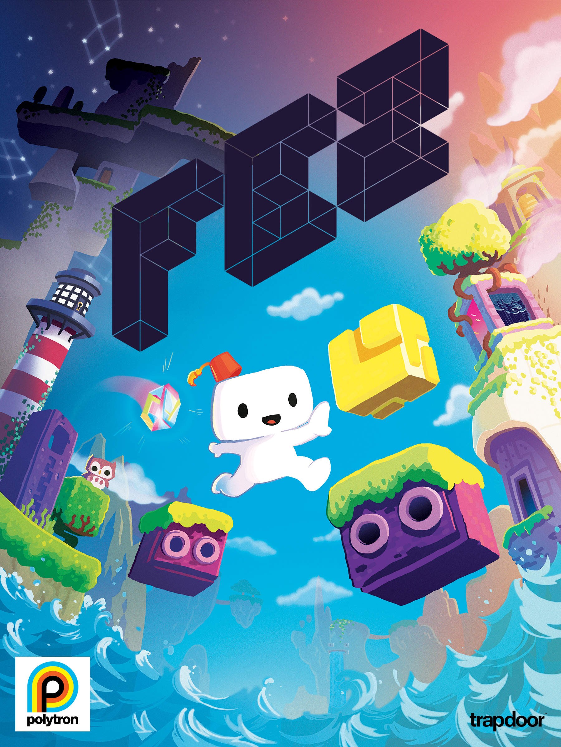 Fez cover art, designed by Bryan Lee O'Malley.